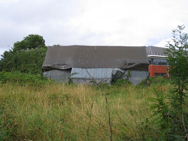 The Master's House, Saltisford What's in the plastic bag? Here's the English Heritage description (2008): "Warwick Masters House 4,5 and 6 St Michaels Court, Saltisford, Warwick. Designation Listed Grade II*, Scheduled Ancient Monument C15 structure on C12 foundations; part of the former leper hospital of St Michael founded in the C12. Temporary propping and protective sheeting has been installed, but the building is in a serious condition. English Heritage grant not taken up. Scheme for conversion of building to offices (with new offices to rear of site) now has planning approval. Works expected to commence 2008."